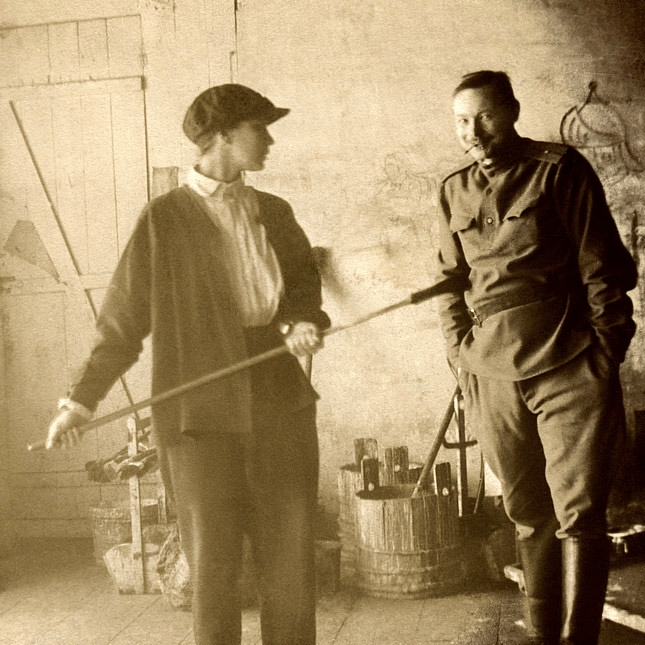 Natalia Goncharova and Mikhail Larionov on the background scenery for the opera-ballet The Golden Cockerel in the workshops of the Bolshoi Theatre, Moscow, 1913